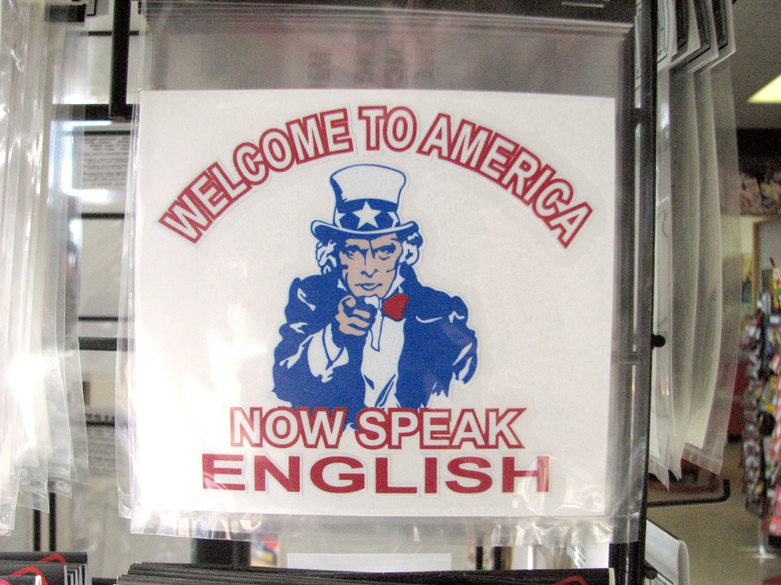 sign, north america, english, road trip, the west, rocky mountains, welcome to america, uncle sam, immigration, illegal immigration, language, illegal aliens, illegal immigrant